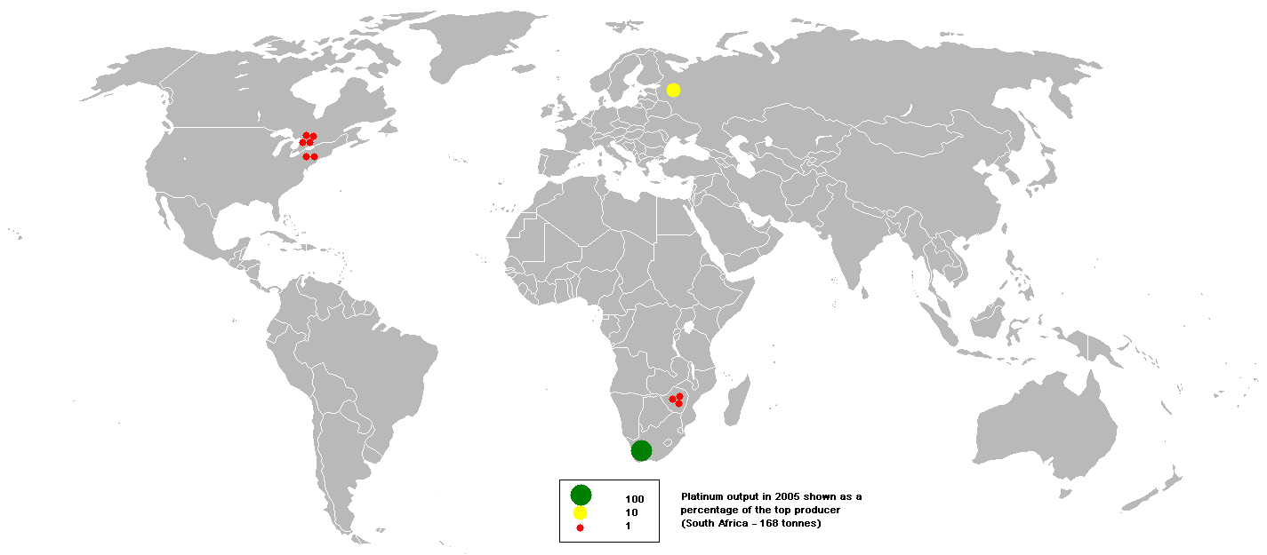 This bubble map shows the global distribution of platinum output in 2005 as a percentage of the top producer (South Africa - 168 tonnes). This map is consistent with incomplete set of data too as long as the top producer is known. It resolves the accessibility issues faced by colour-coded maps that may not be properly rendered in old computer screens. Data was extracted on 31st May 2007. Source - Based on Image:BlankMap-World.png